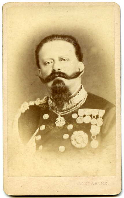 Luigi Montabone (18..-1877) - Vittorio Emanuele II, king of Italy. Recto. Verso.